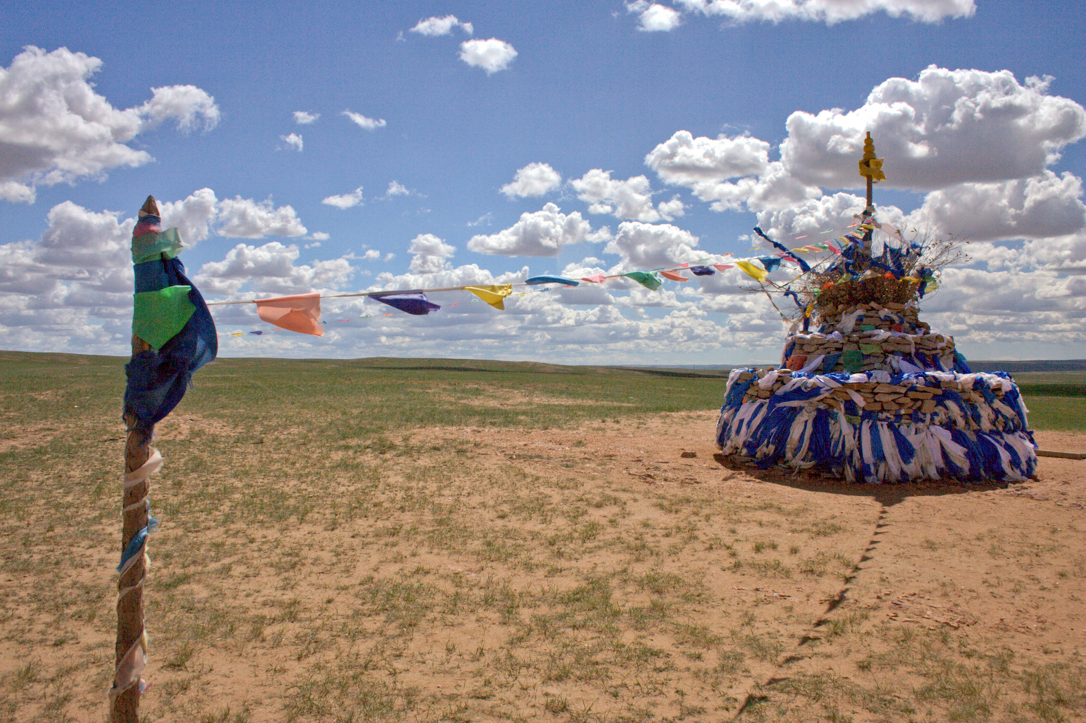 Prayer Flags in Mongolia (Hohhot, Nei Mongol, China)